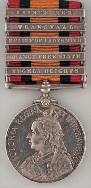 British campaign medal for 2nd Boer War, 1899-1902